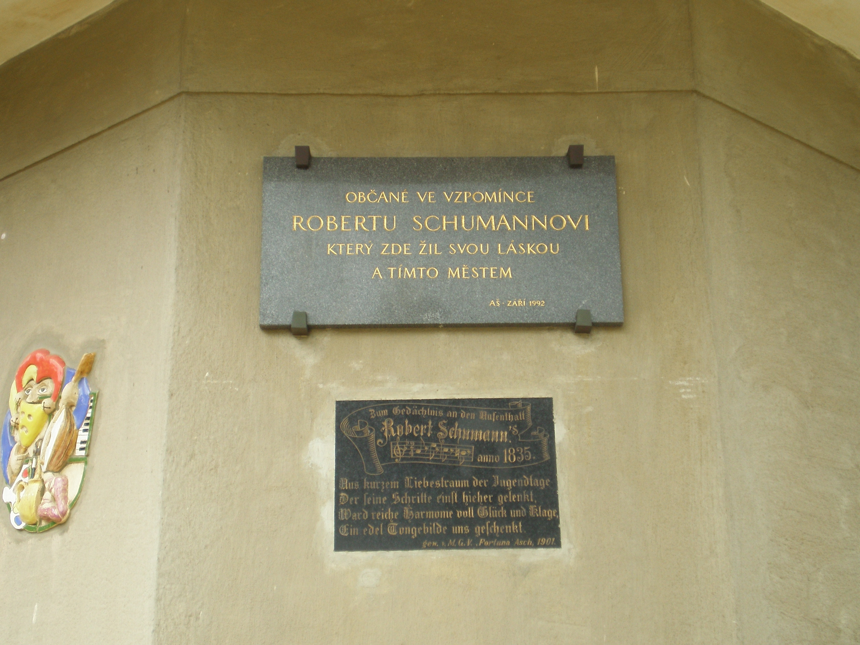 Aš, Robert Schumann Memorial Desk